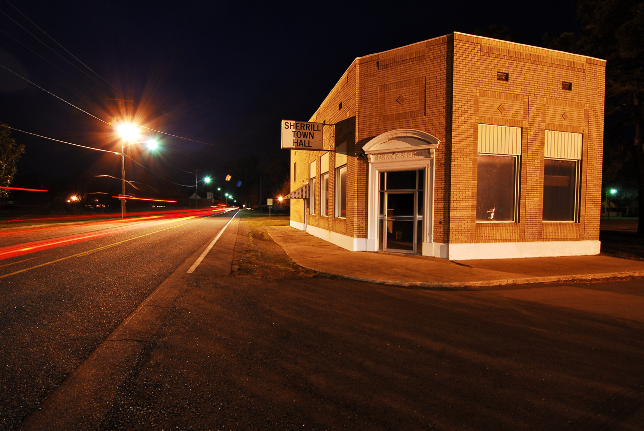 This building is pretty much all that is left in "downtown" Sherril.